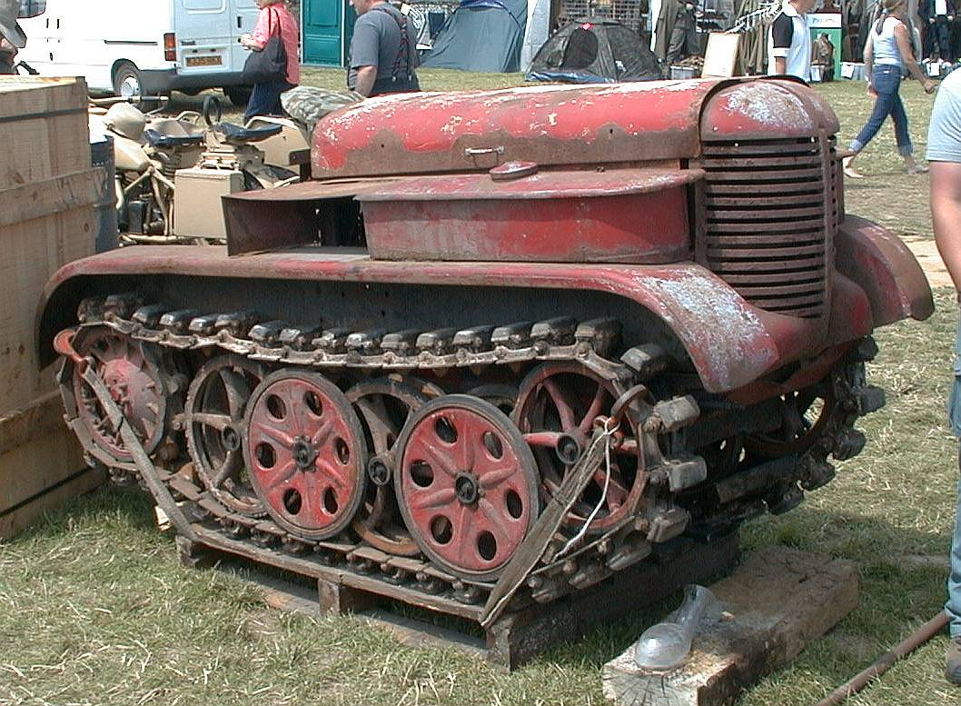 French Babiole Farm tractor, using parts of the German NSU Kettenkrad